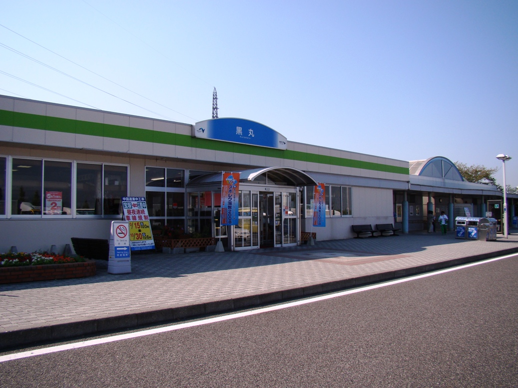 Kuromaru parking area Meishin expressway Shiga Japan